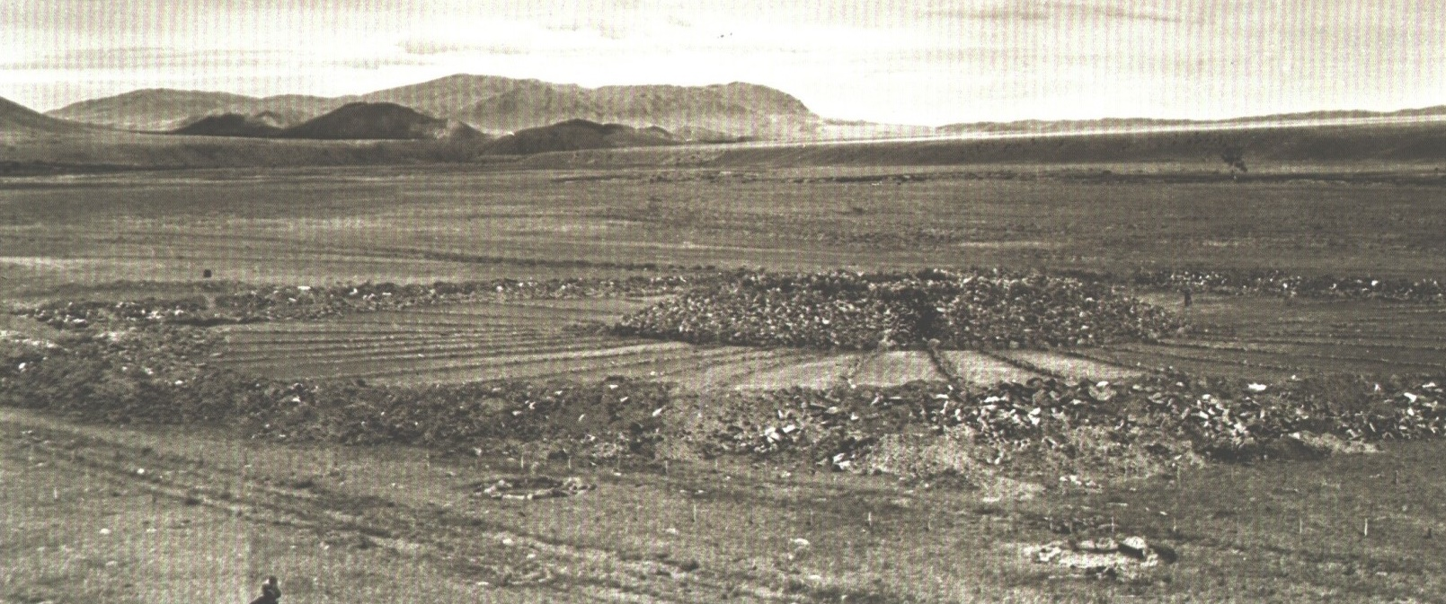 Ulug-Khorum